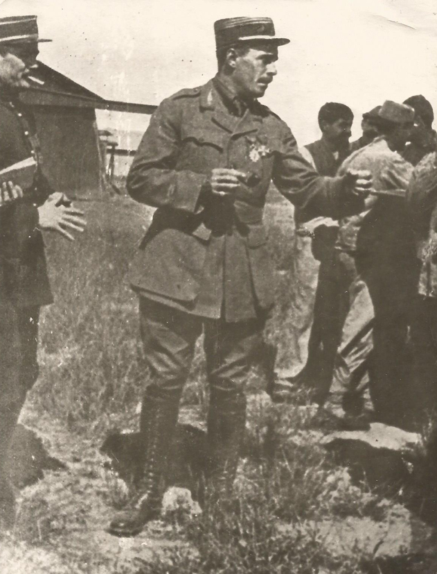 Vedrines3